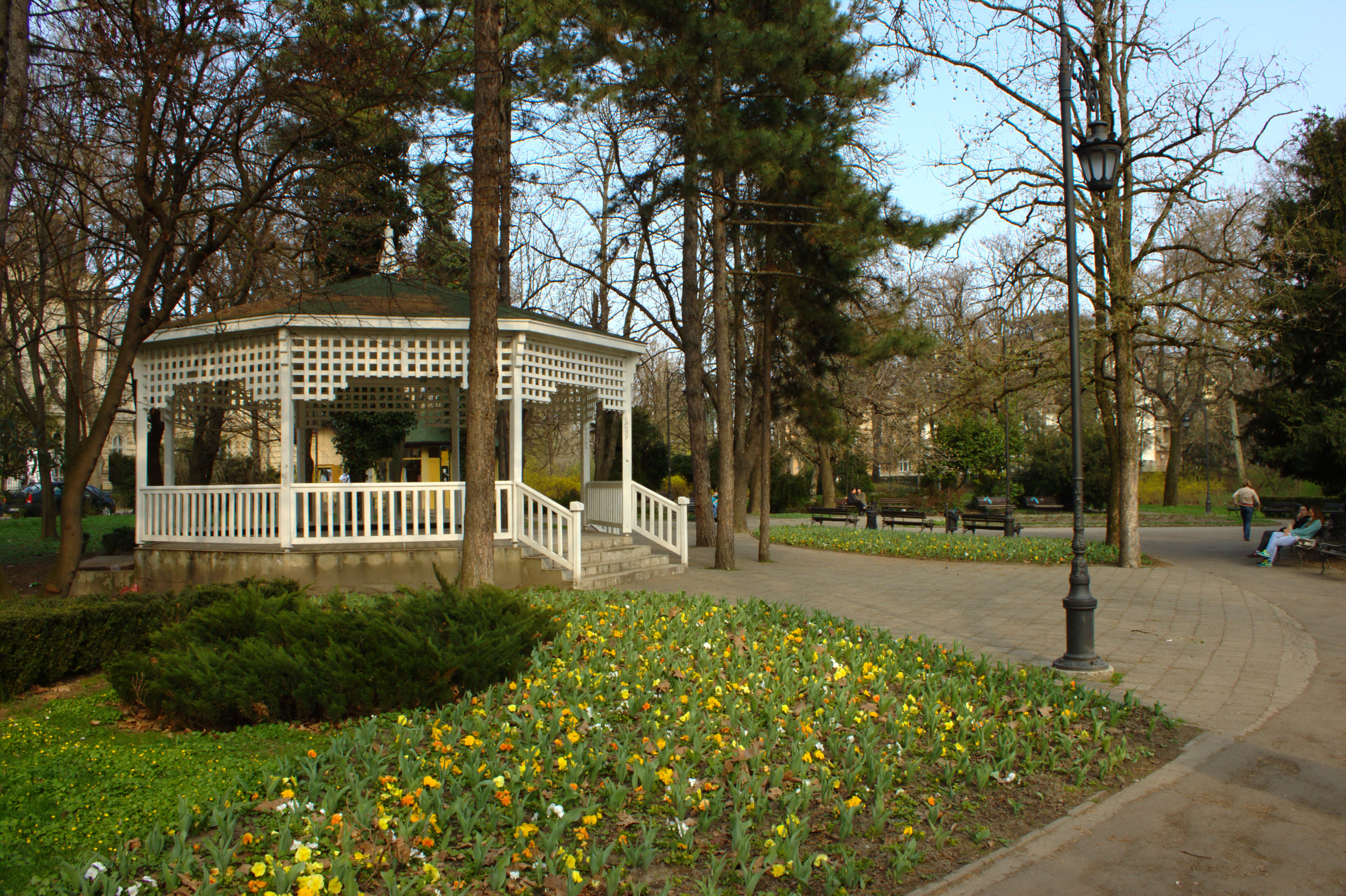 Danube Park (Dunavski park) during spring - one of the two gazebos in the park, this one is next to the building of Vojvodina Museum, Novi Sad, Serbia